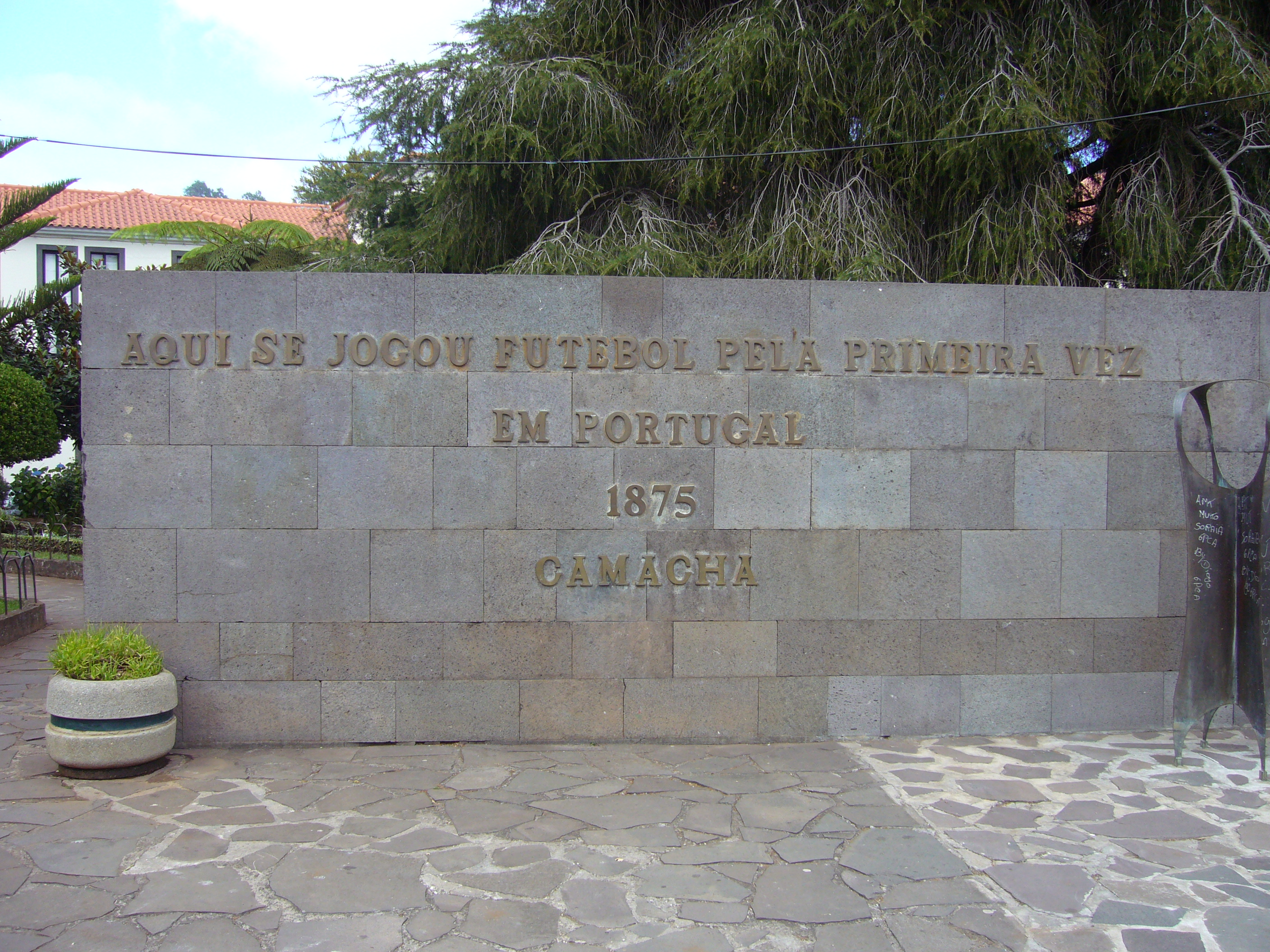 Football in Portugal was played for the first time in Camacha-Madeira